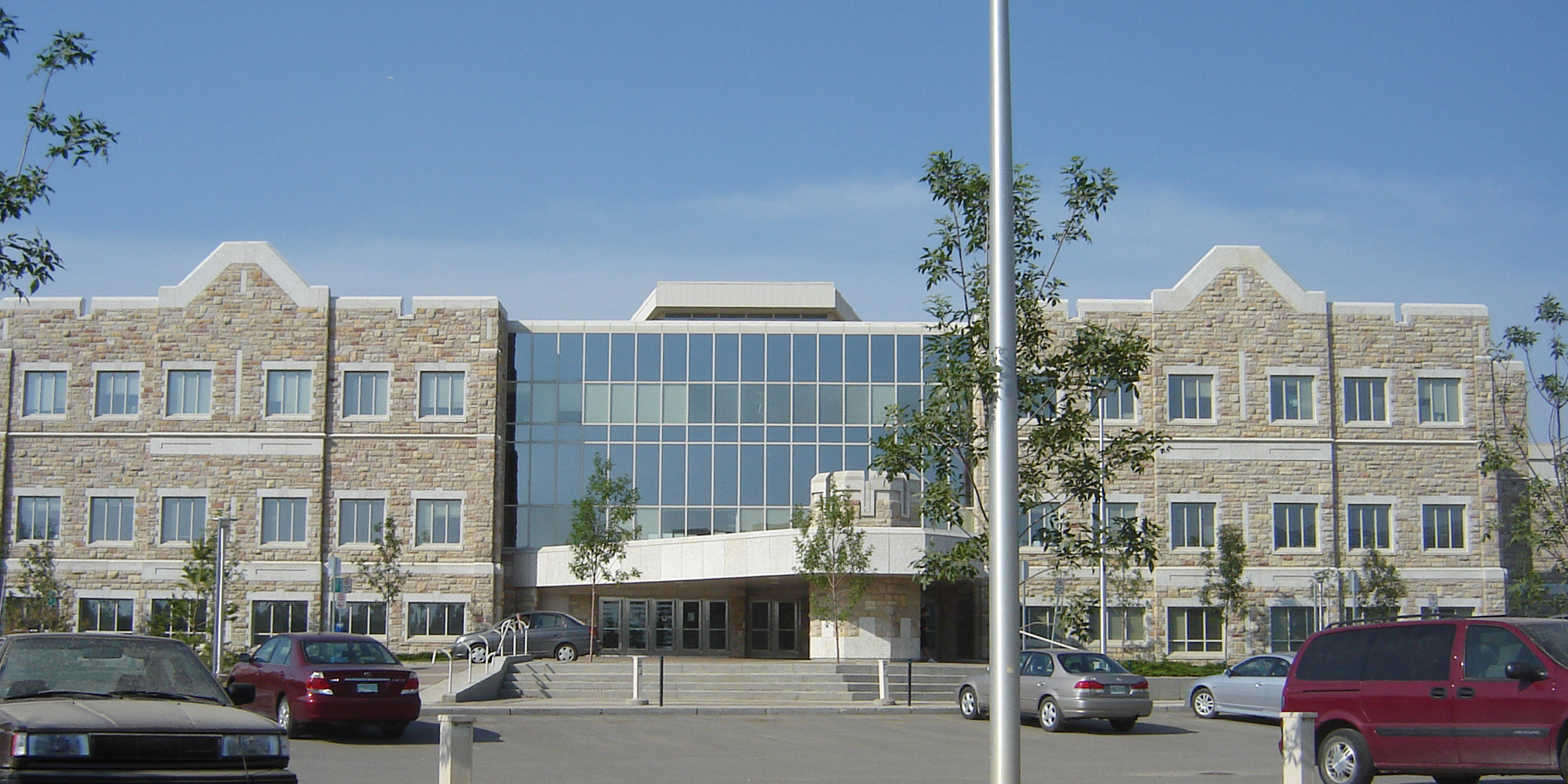 Physical Activity complex U of S Saskatoon Saskatchewan Canada